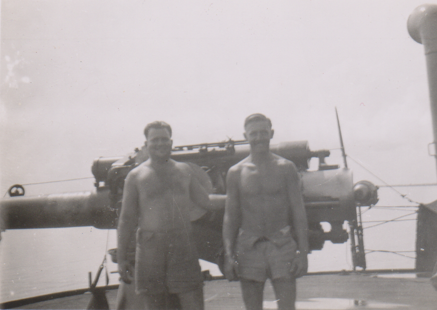 Two Australian Merchant Navy sea men standing in front of a gun onboard a ship during World War II